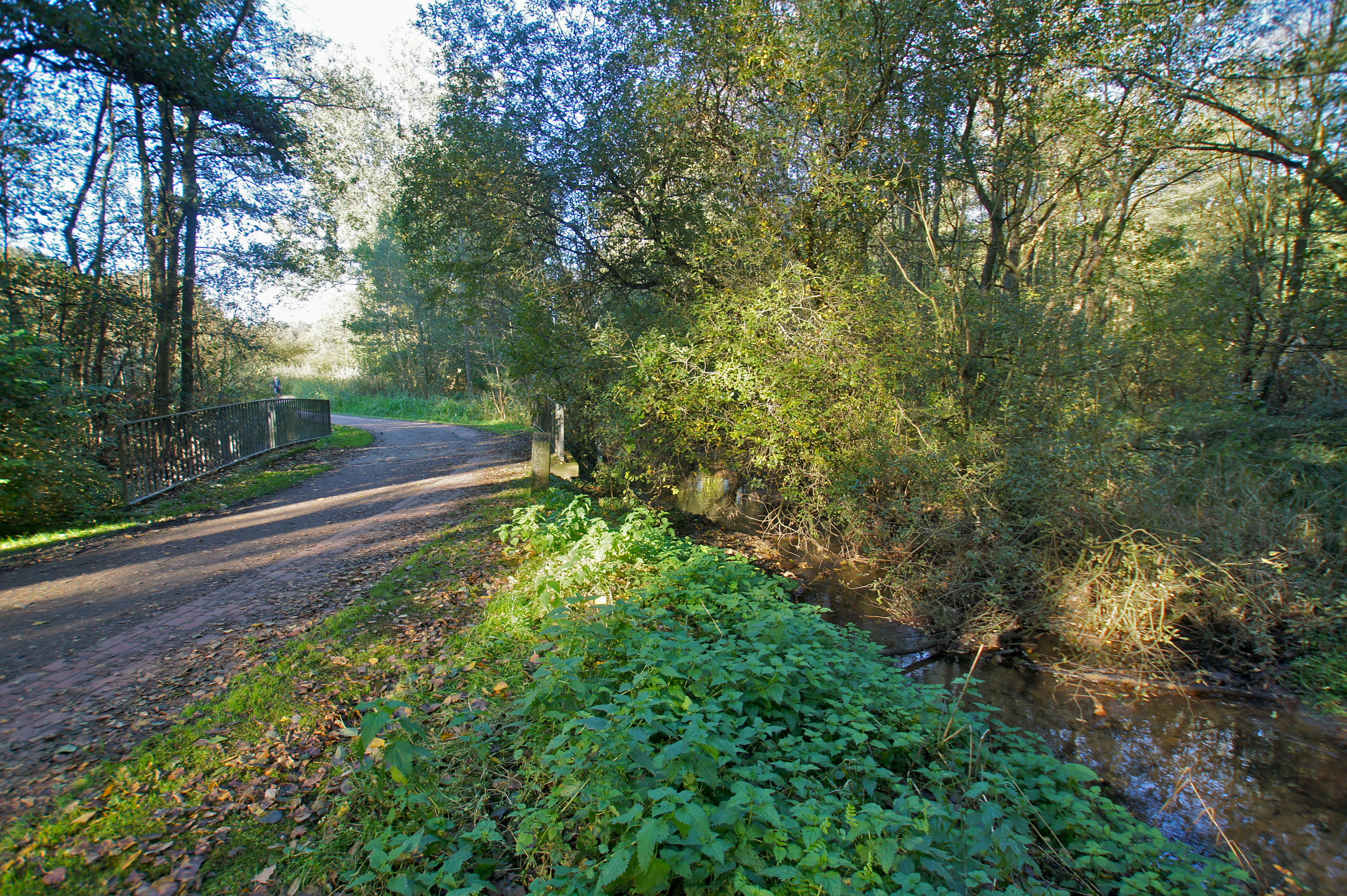 Hamburg (Wilstorf), Germany: The confluence of the rivers Schulteichgraben and Engelbek